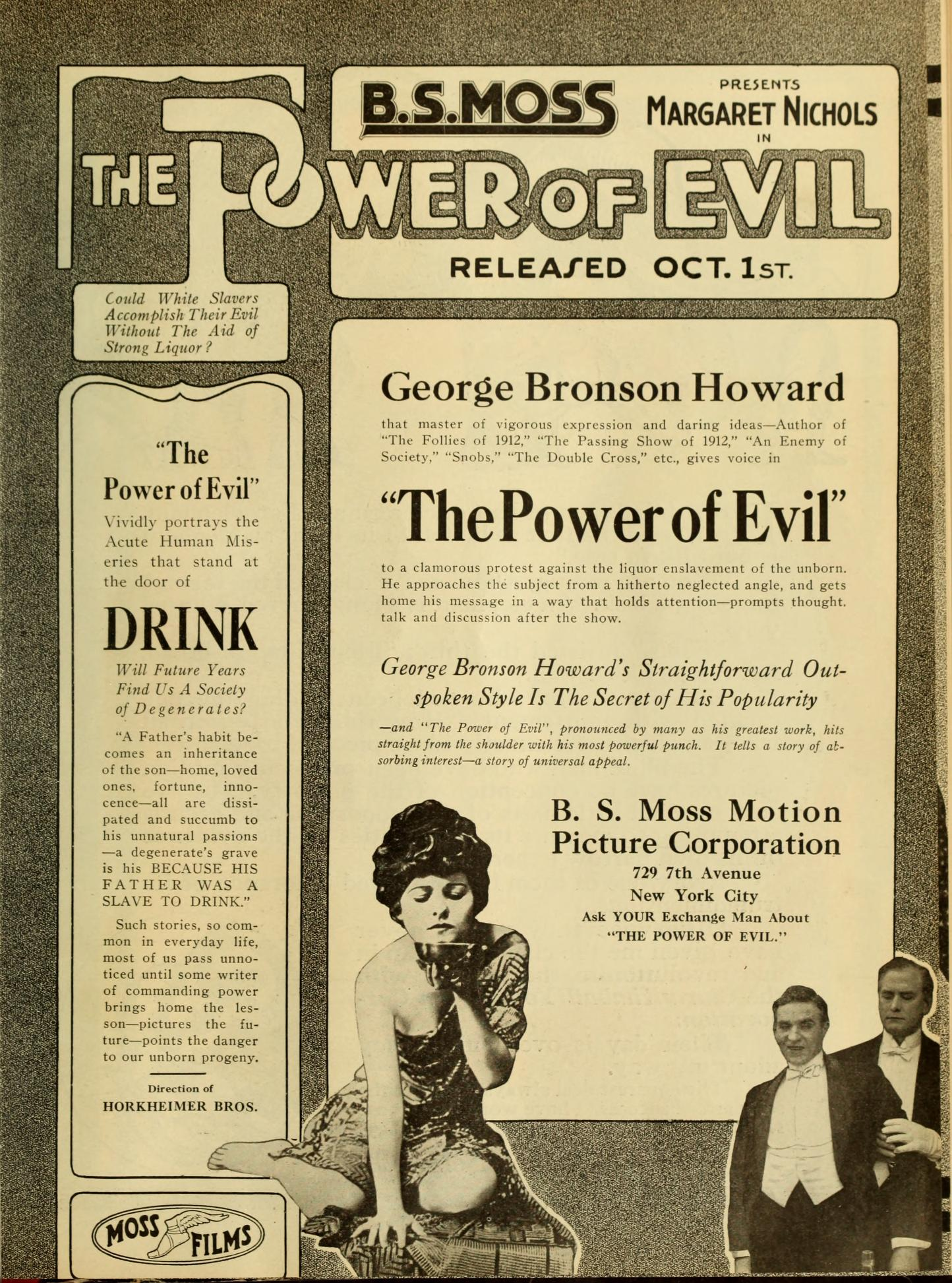 Advertisement in Moving Picture World for the American drama film The Power of Evil (1916).